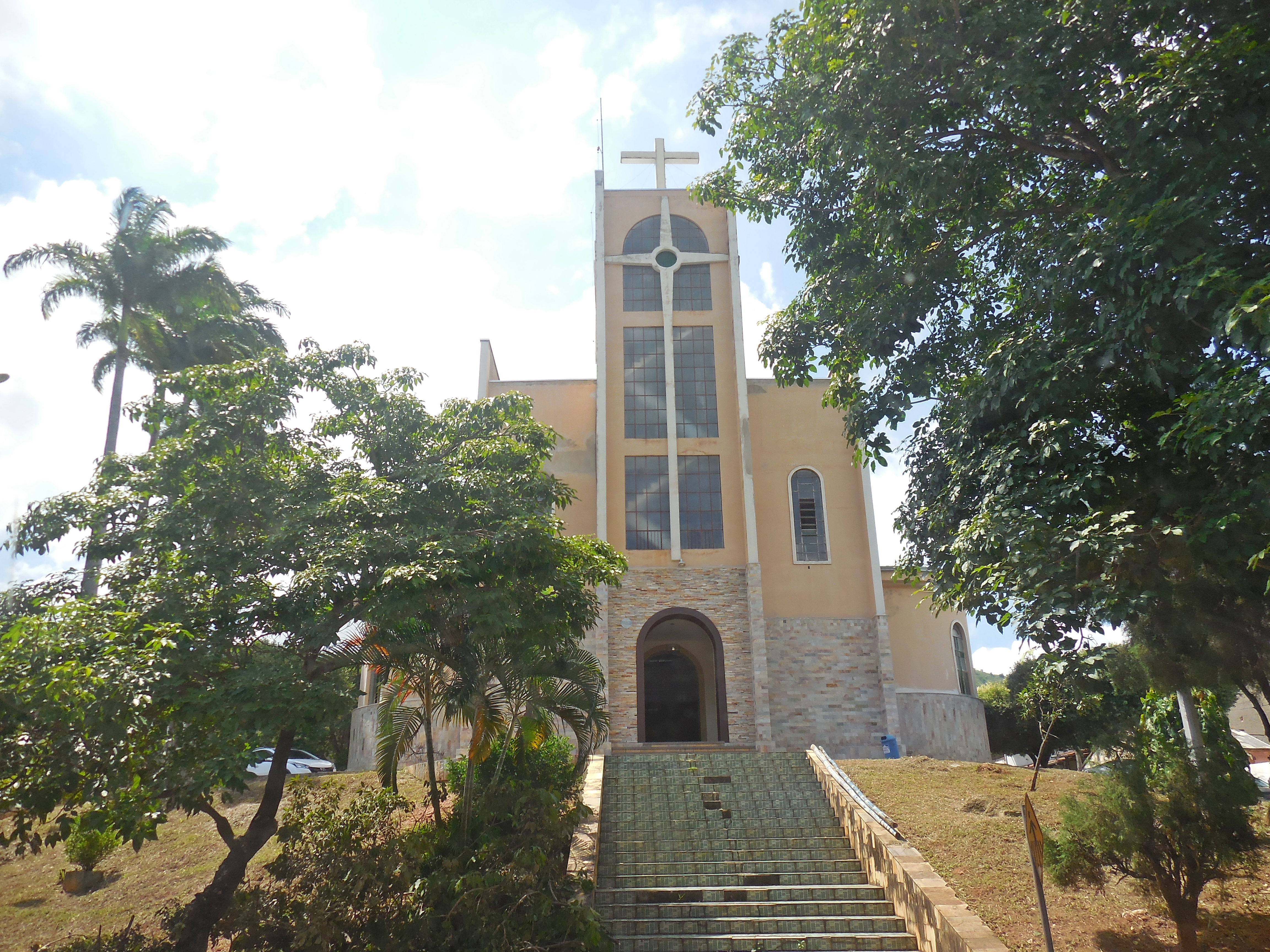 Facade of the Saint Sebastian Mother Church, in Timóteo, Minas Gerais, Brazil.